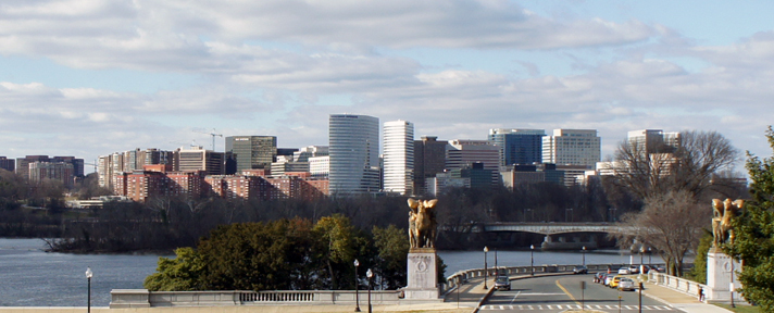 Panoramic view of Rosslyn, Arlington, VA, from the Lincoln Memorial, Washington D.C.